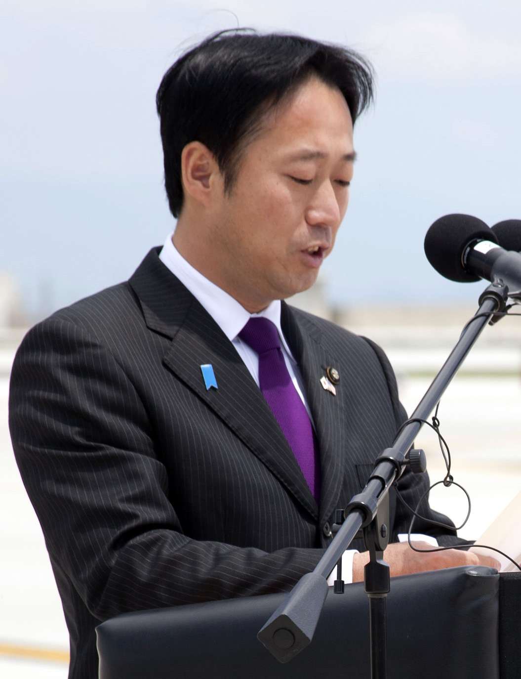 Yoshihiko Fukuda, the mayor of Iwakuni City, speaks during the commissioning ceremony of the new runway at Marine Corps Air Station Iwakuni, Japan, May 29, 2010. The ceremony marked the conclusion of the $2.6 billion, 13-year construction effort, which was designed to enhance flight safety and decrease aircraft noise in the communities surrounding the air station. (U.S. Marine Corps photo by Cpl. Andrea M. Olguin/Released) (original text)